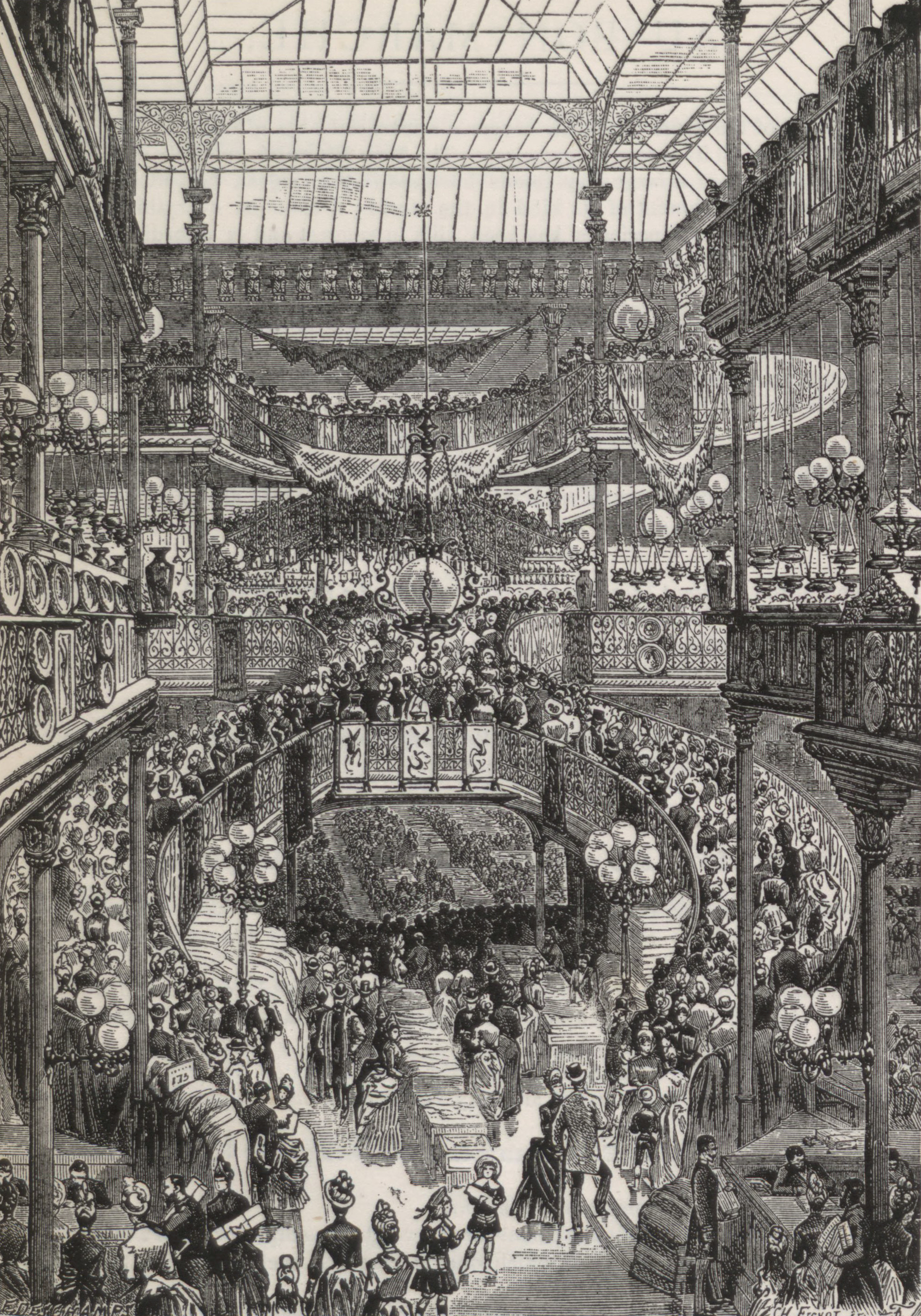 The illustration shows the central staircase and the glass roof above it, Le Bon Marché, Paris.